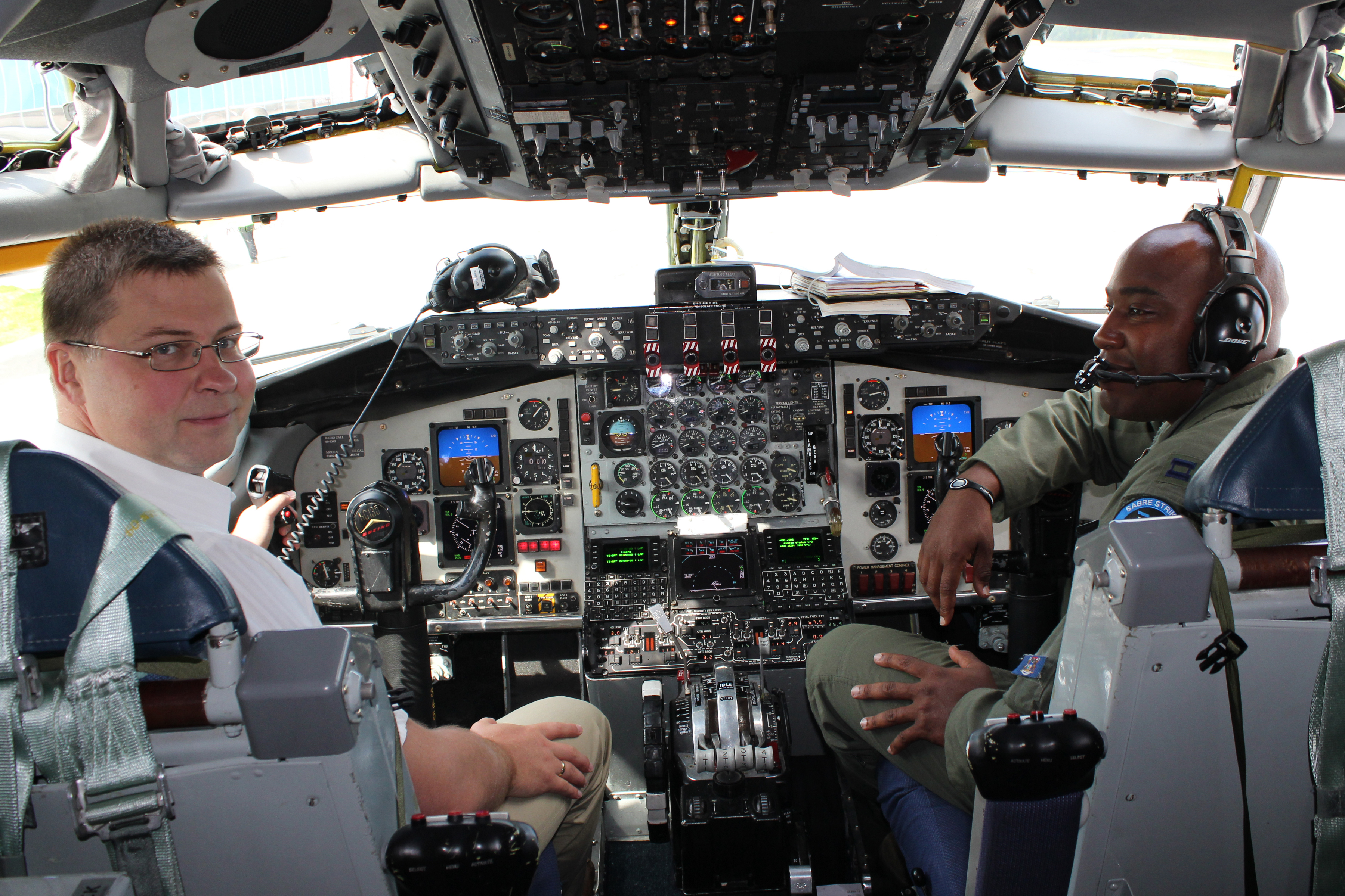 The prime minister of Latvia sits at the controls of a KC-135 Stratotanker along with an officer from the Michigan Air National Guard during Saber Strike 2012. This multinational, tactical field training exercise involves more than 2,000 personnel and is designed to enhance joint and combined interoperability between the U.S. Army and partner nations, and will help prepare participants to operate successfully in a joint, multinational, interagency, integrated environment.